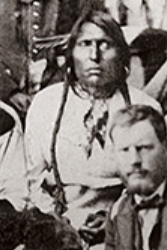 A delegation of Arapaho and Cheyenne leaders met with the U.S. military on Sept. 28, 1864, at Camp Weld, Colo., to seek peace on the plains east of Denver, almost two months before the Sand Creek Massacre. Denver Public Library, Western History Collection.